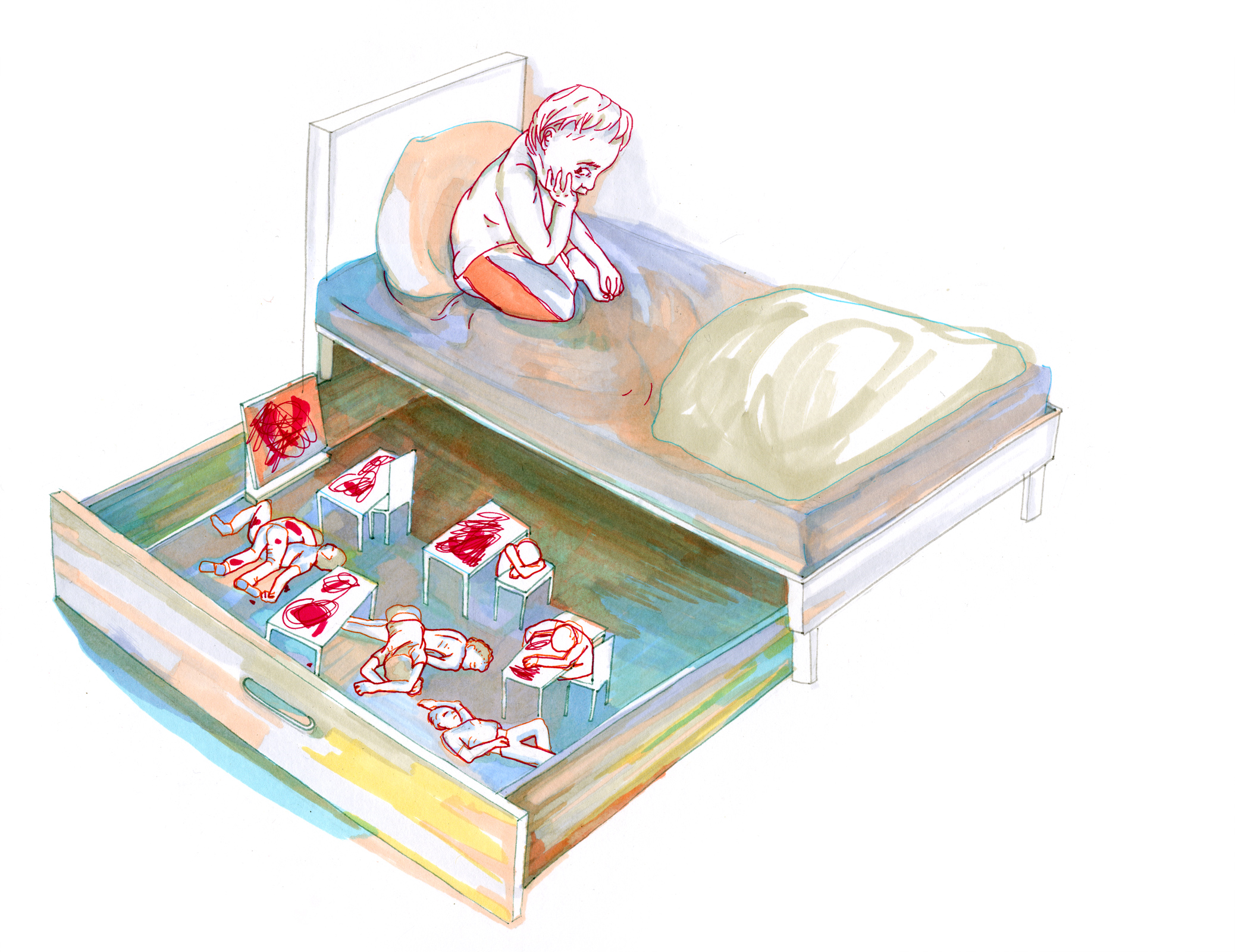 illustration of a child siting on a bed looking at his toys inside the bed box. Technique: Markers on paper.